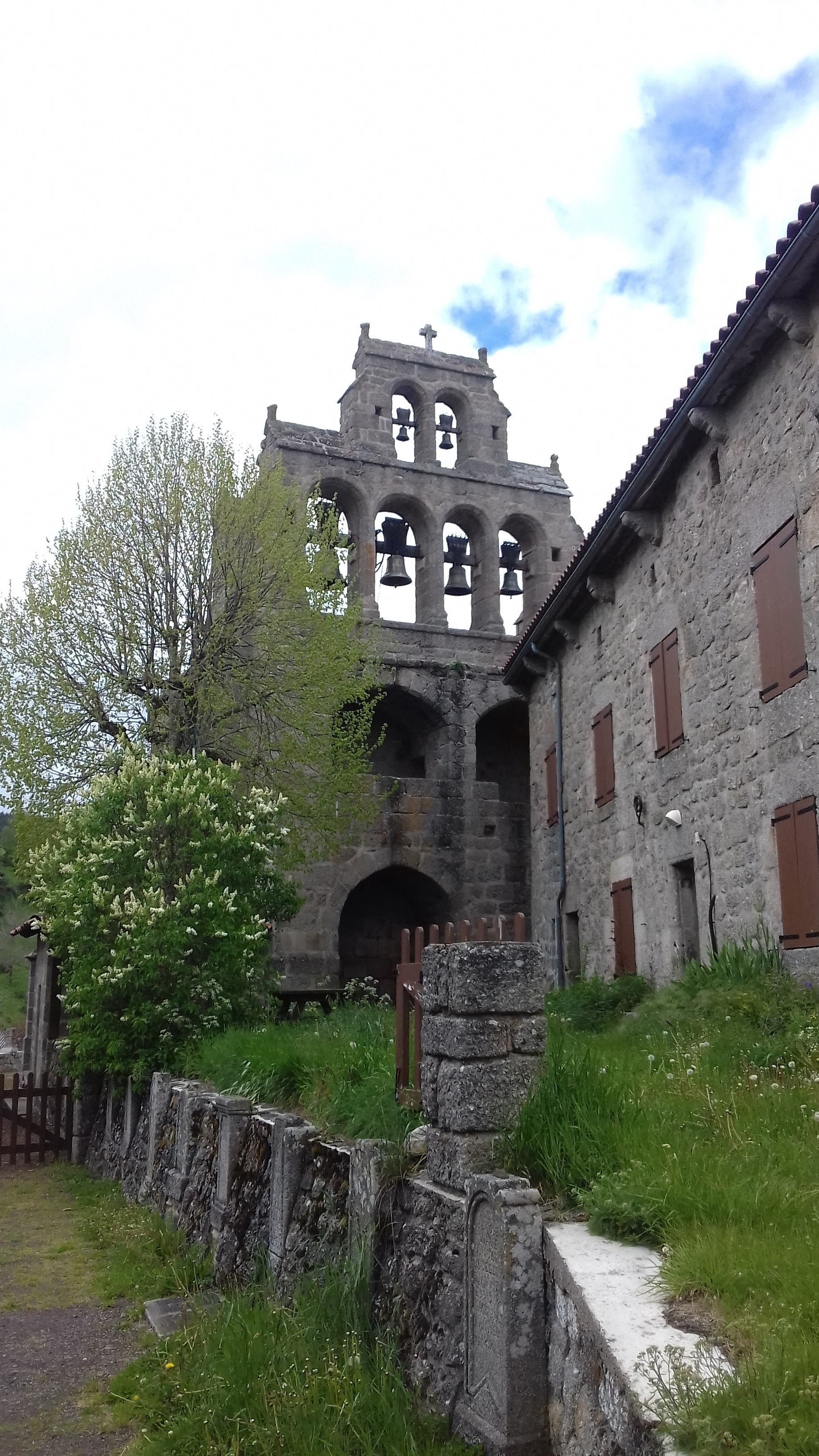 Église de Chanaleilles (43170)